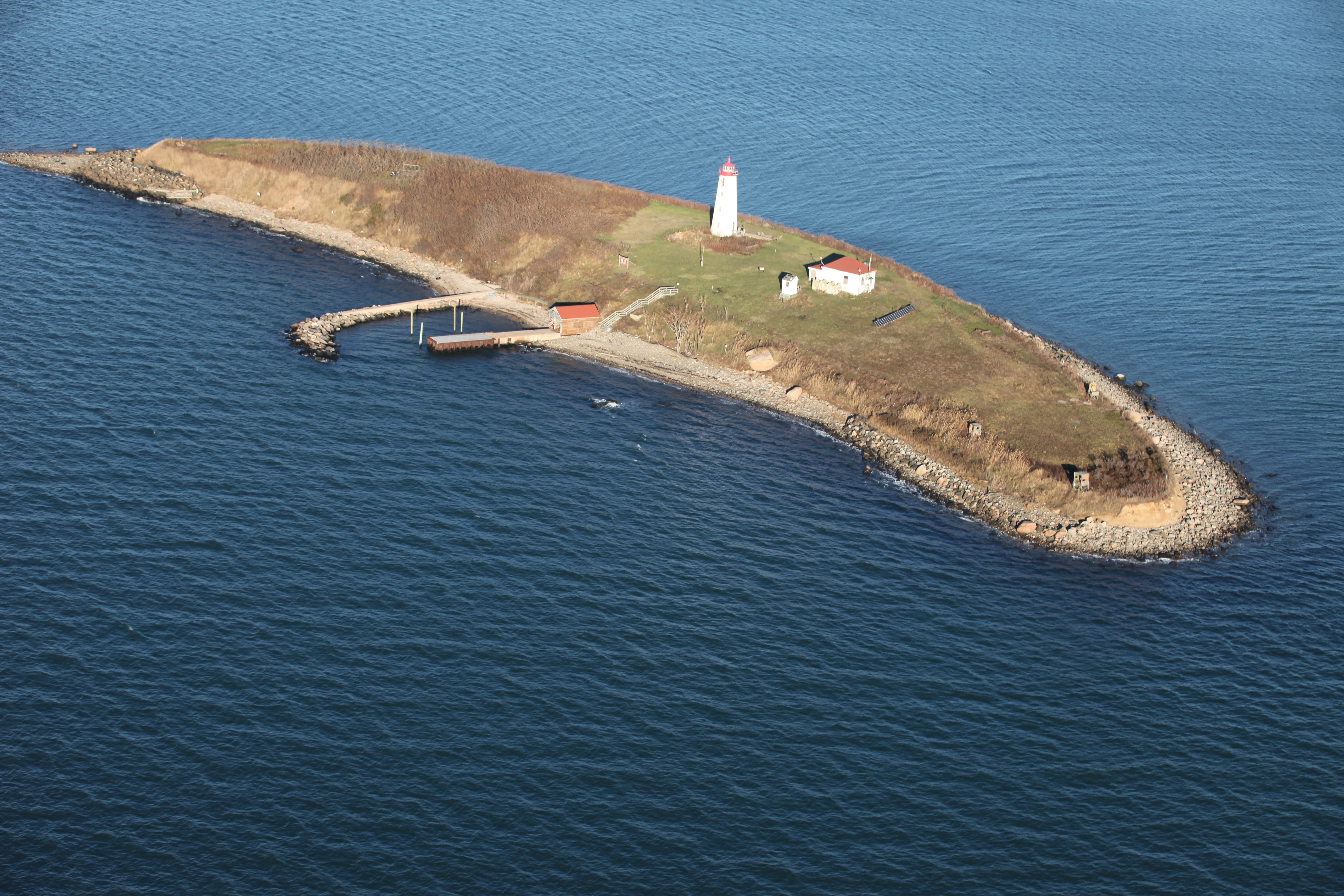 Aerial view of Falkner Island in the aftermath of storm Sandy. Credit: Greg Thompson/USFWS Stay informed